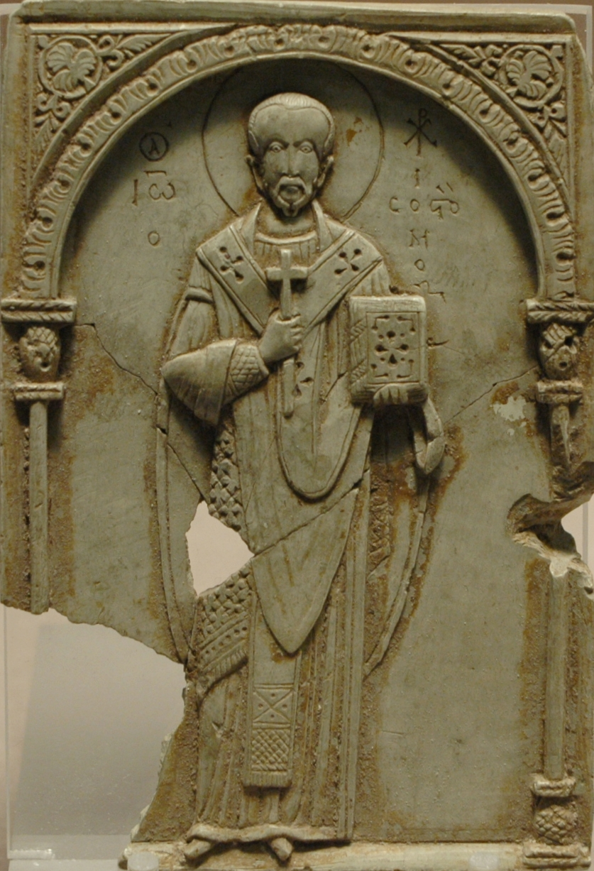 John Chrysostom, Constantinople, early or middle 11th century. Soapstone and highlights of gold.